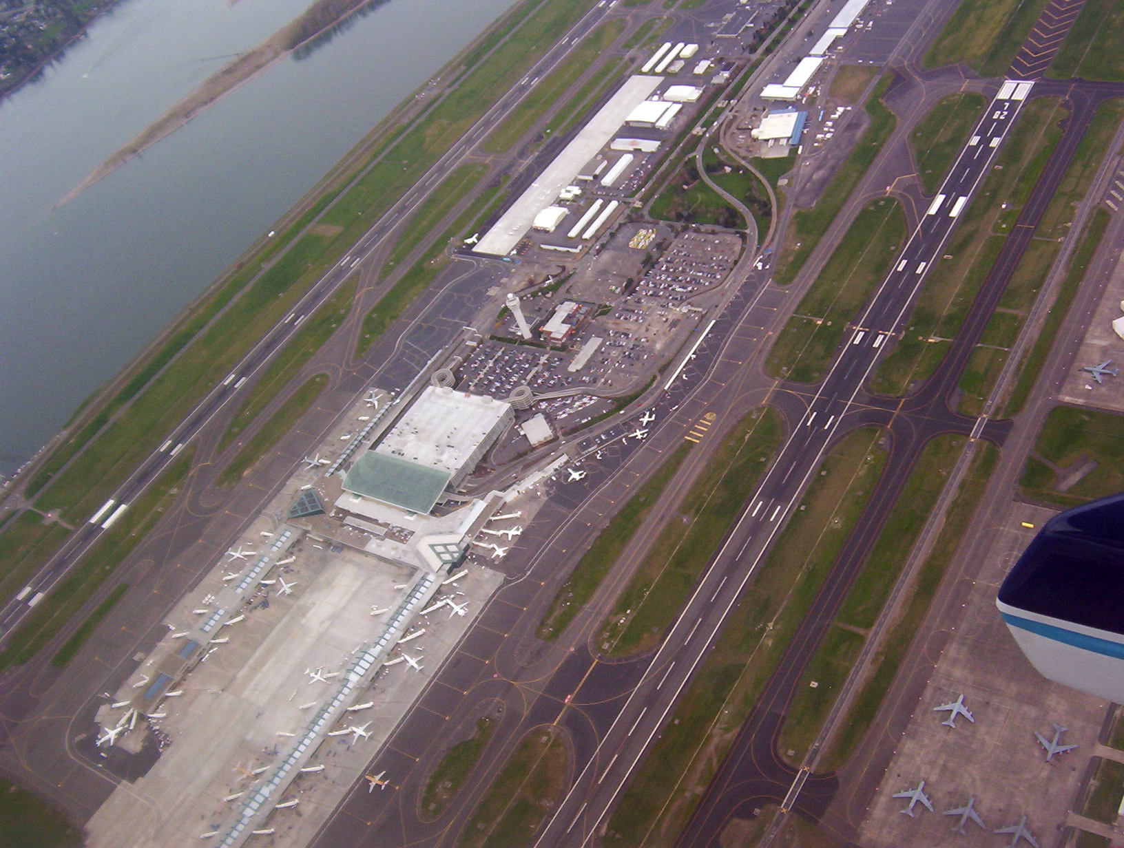 I took this photo of Portland International Airport as we were flying over it.